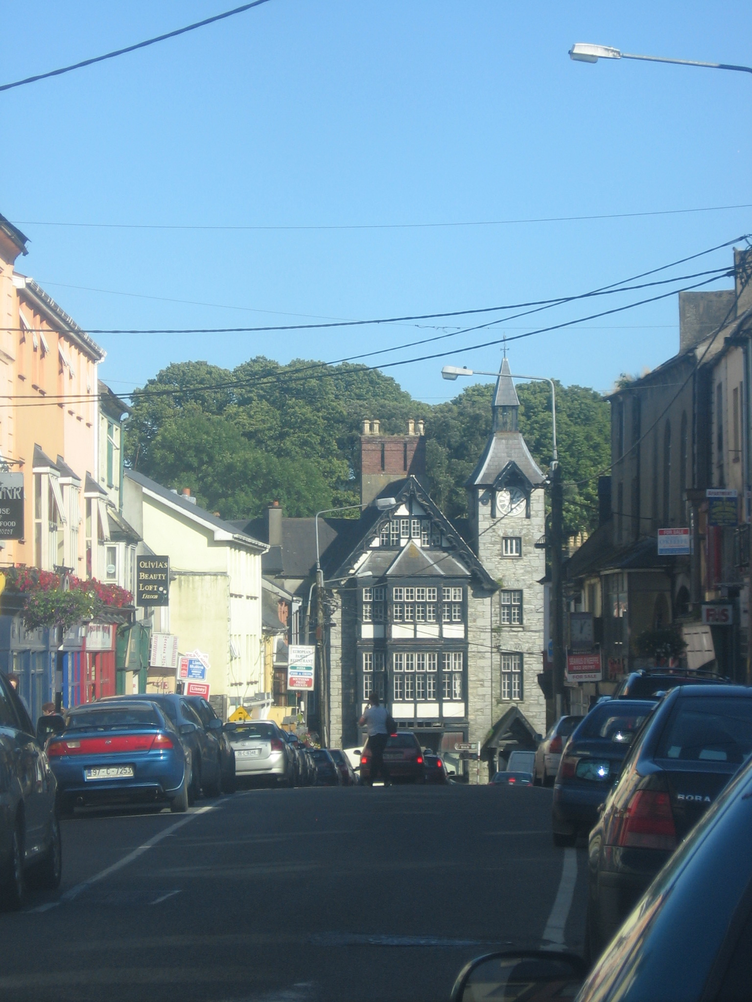 Main Street, Mallow, Co. Cork, Ireland. Featuring the clock tower at the junction of The Spa and Bridge Street.